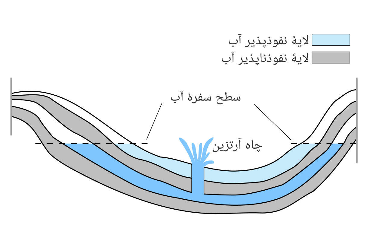 Schematic of Artesian well